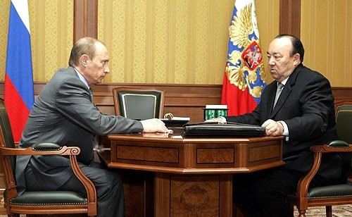 Murtaza Rakhimov, a Russian politician.